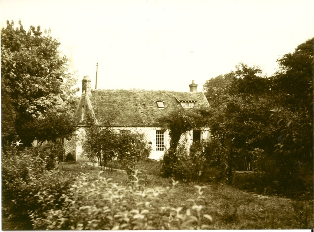 The house in Vaux-le-Pénil (France) in which the belgian painter Mayou Iserentant lived from 1946 to her death in 1978